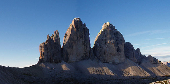 Tre Cime di Lavaredo (2.999 m) seen from the Dreizinnenhut (2.405 m).